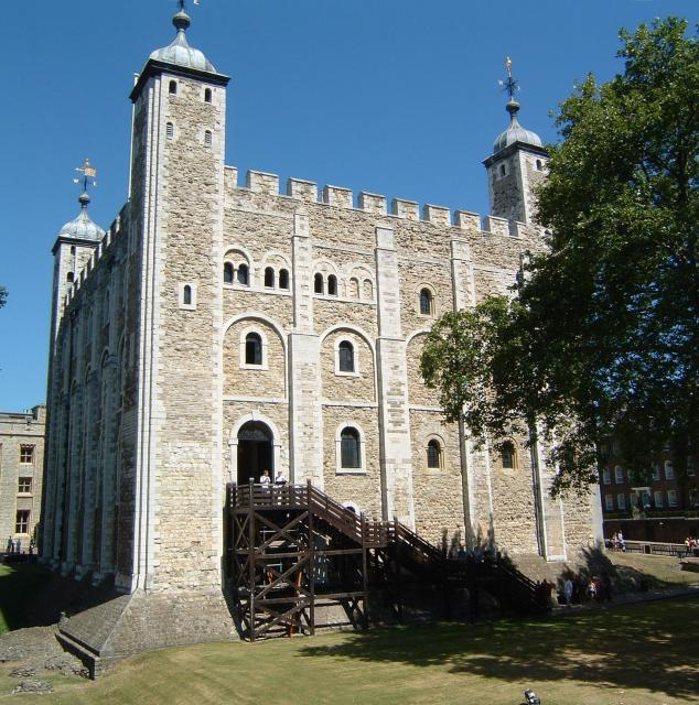 The Tower of London The White Tower the original 11th century fortification built at the instigation of William I, the Conqueror. Much information here